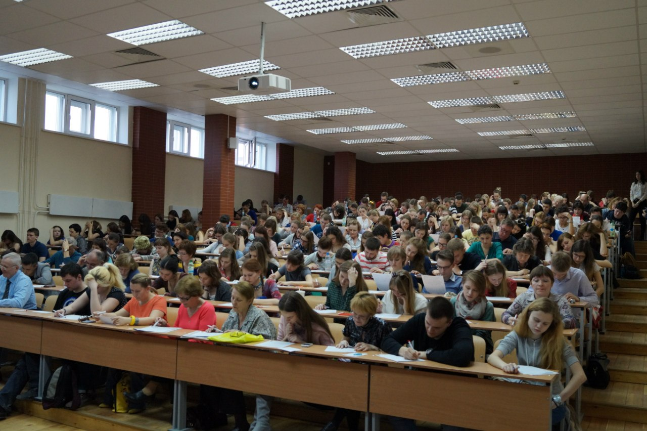 Lecture, NSUEM Лекция, НГУЭУ